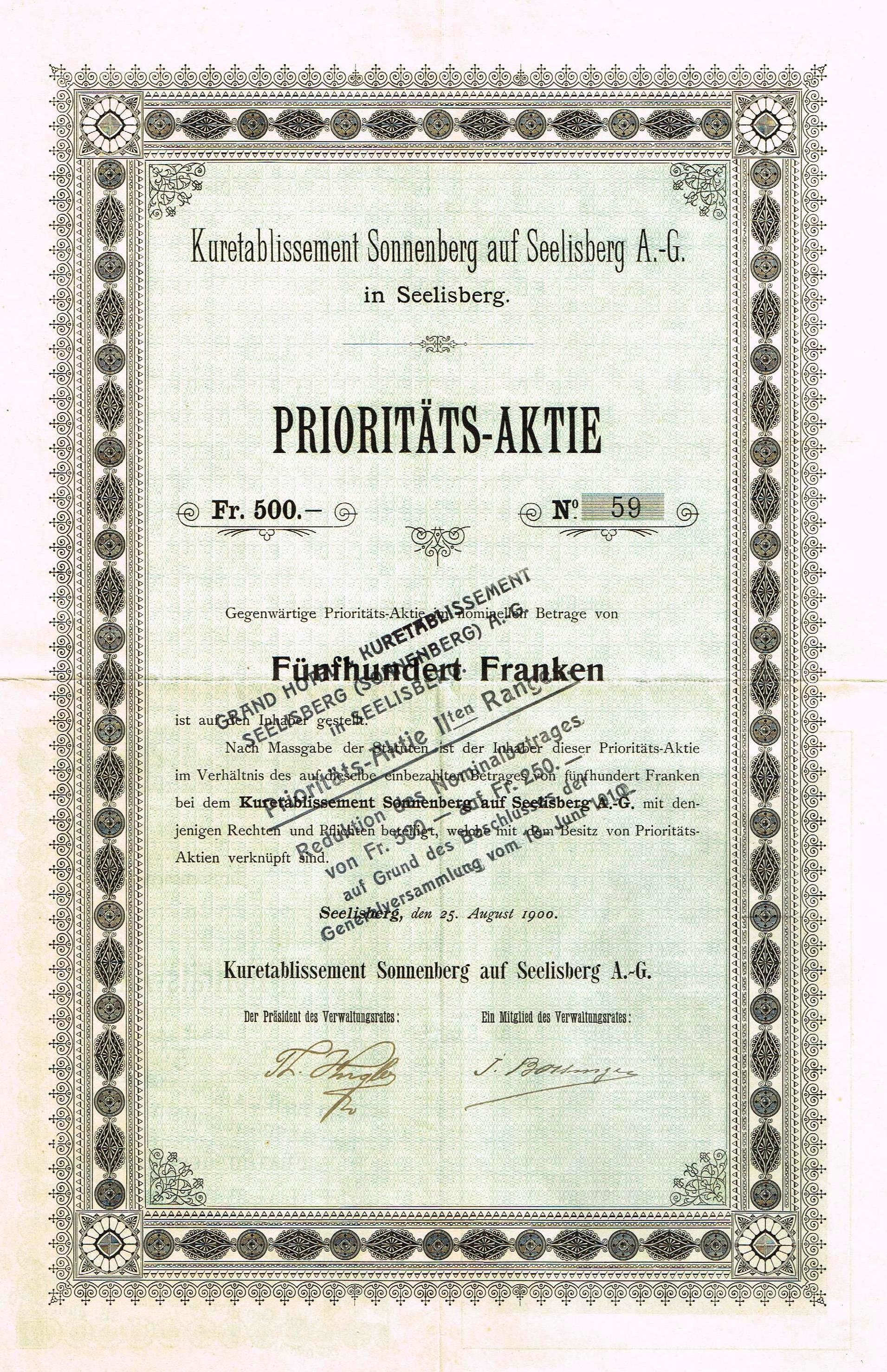 Share of the Kuretablissement Sonnenberg auf Seelisberg AG, issued 25. August 1900